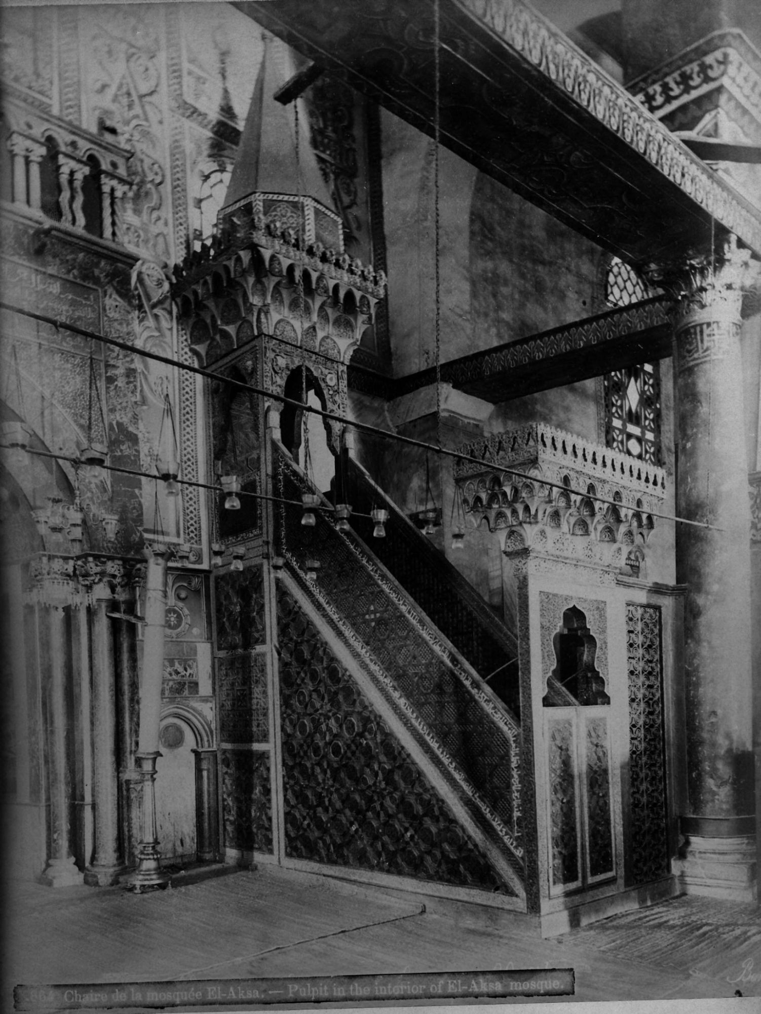 Interior of Al Aqsa Mosque Jerusalem.